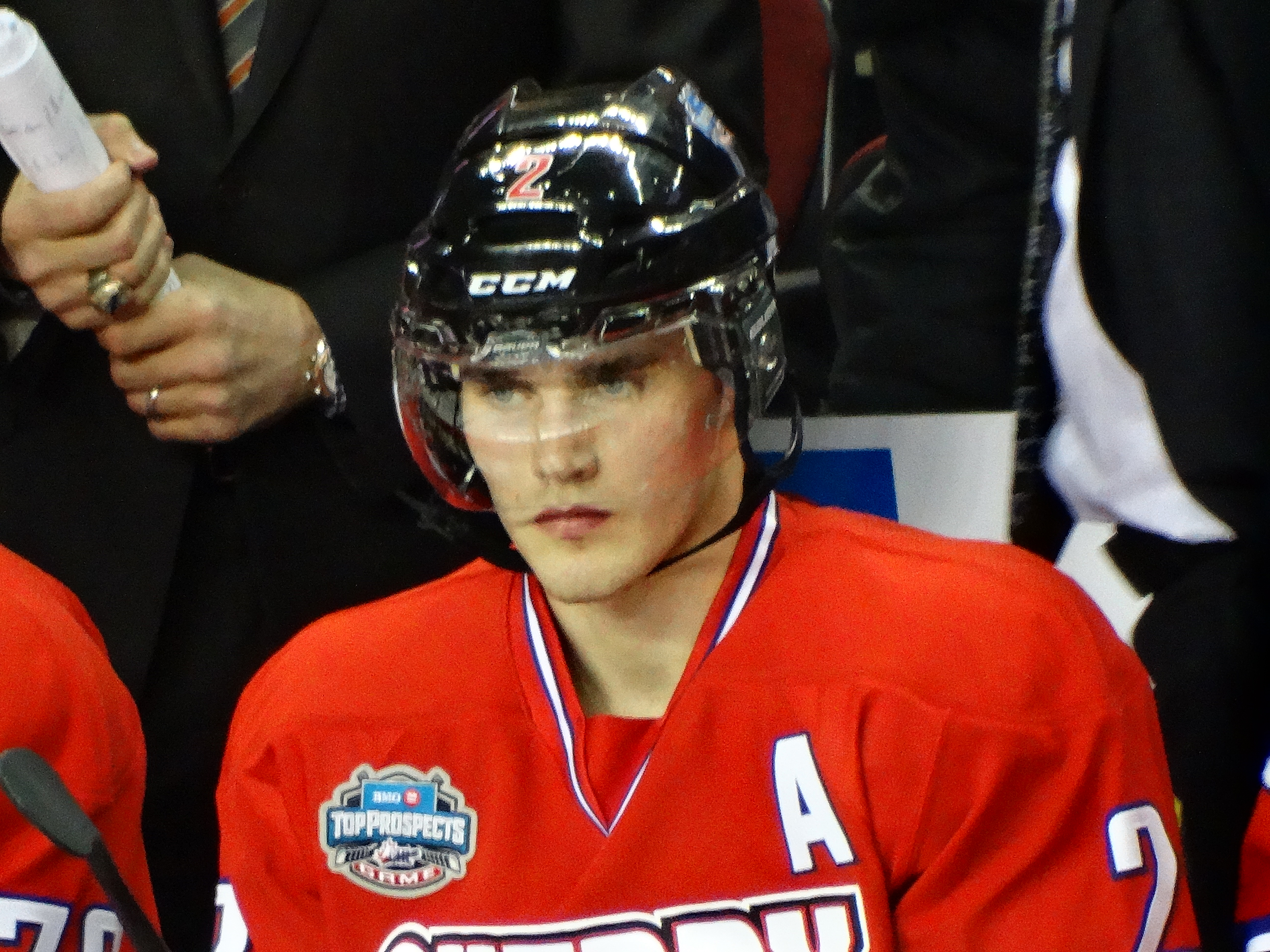 Roland McKeown, Canadian ice hockey defenseman at the CHL / NHL Top Prospects Game